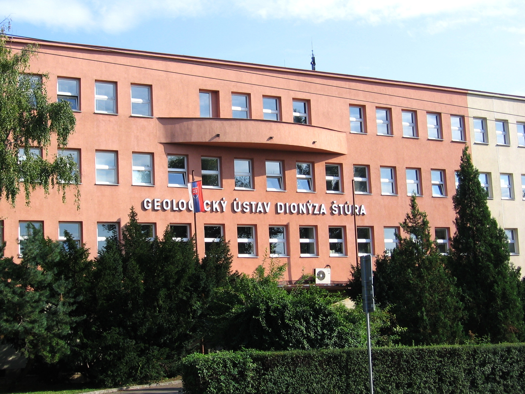 Building of the Geological Survey of Slovak Republic (State Geological Institute of Dionýz Štúr) on the Patrónka in Mlynská dolina Valley, Bratislava. Beginning of the September 2009.